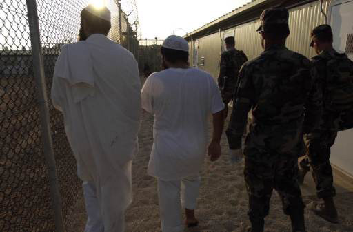 Detainees are shown to their new living quarters in a medium security facility at Guantanamo Bay, Cuba. The communal living environment allows greater freedom of movement and group recreation.